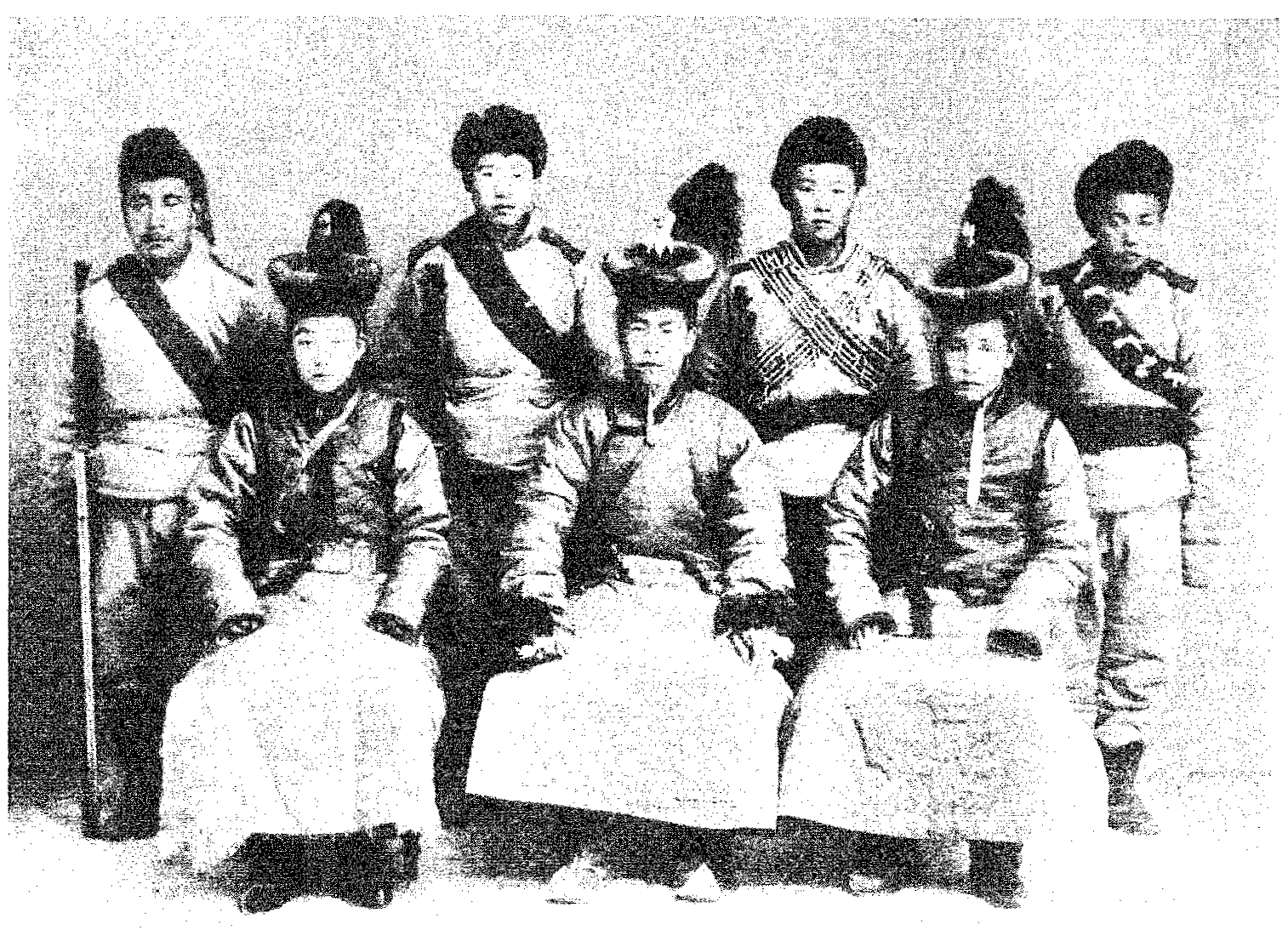 Image from With the Russians in Mongolia